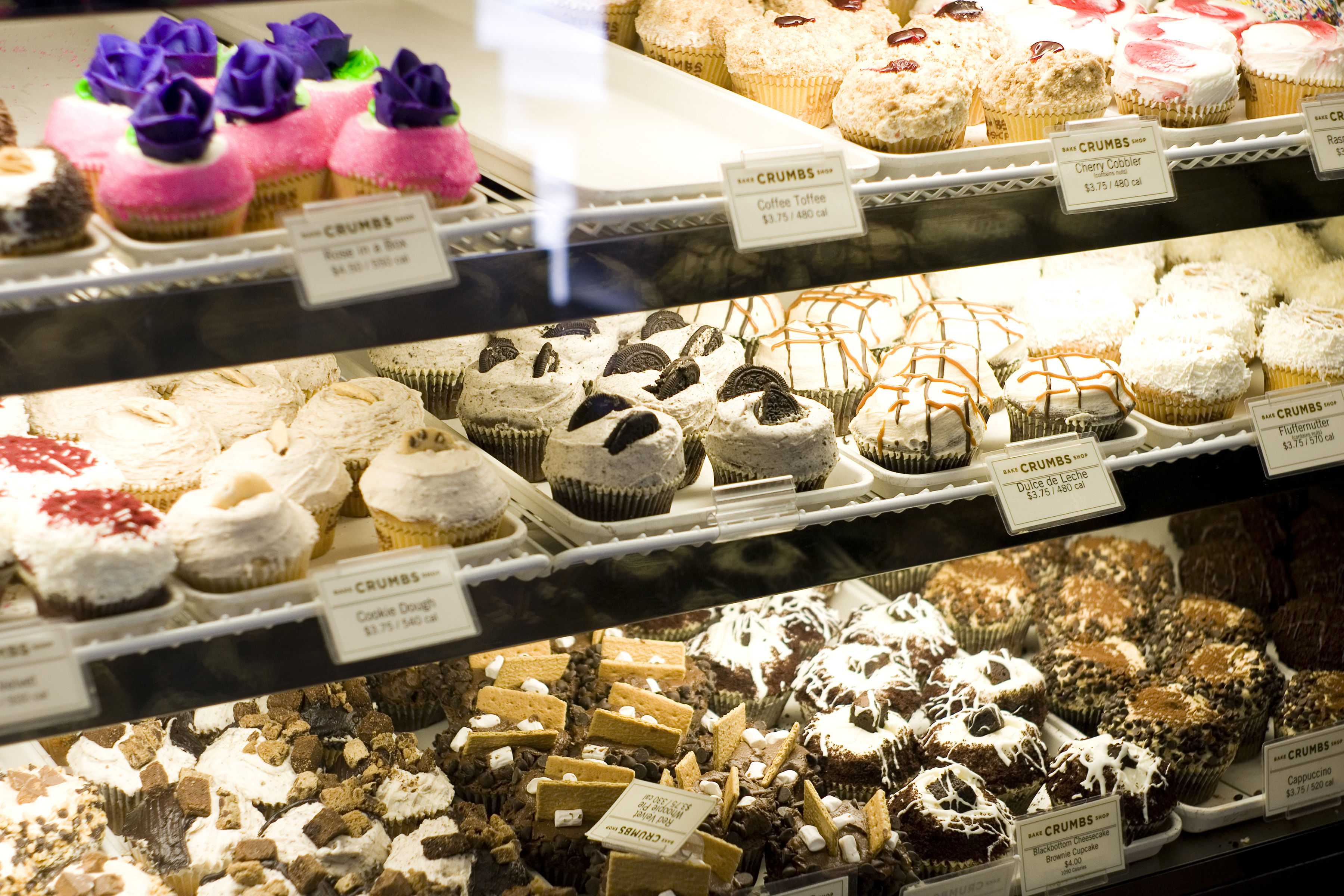 A selection of cupcakes inside a display case at a Crumbs Bake Shop in Union Square, NYC.